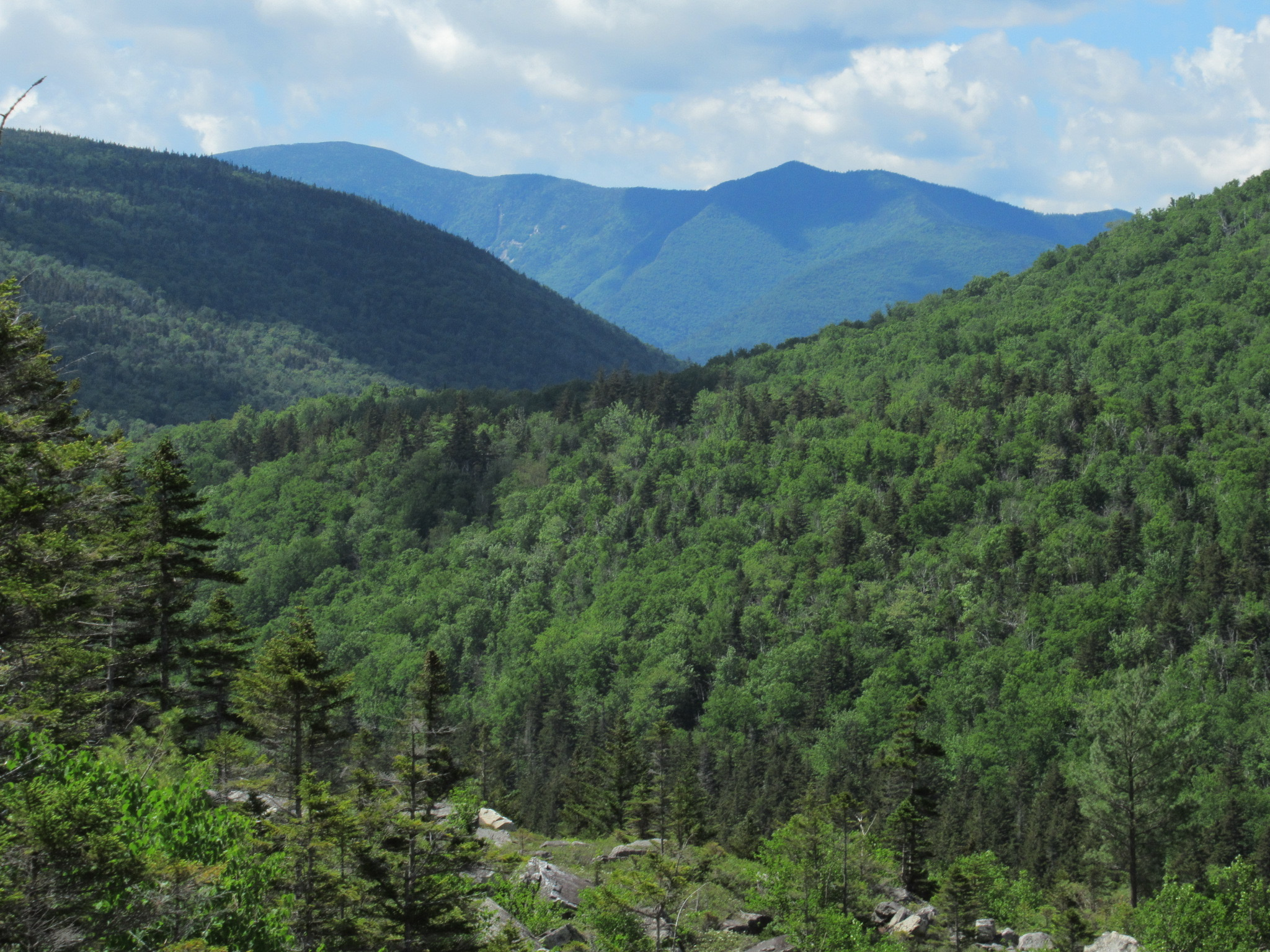 Mount Hancock (New Hampshire) as seen from Zealand Notch